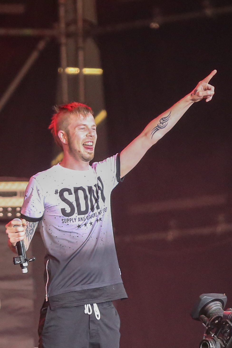 Przystanek Woodstock in 2017.